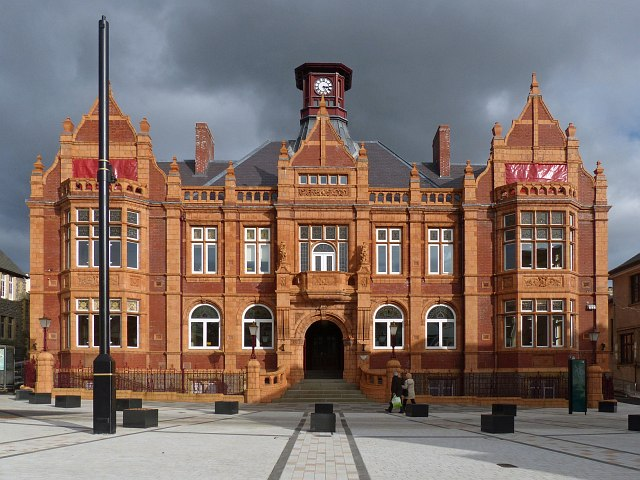 Merthyr Old Town Hall has been refurbished